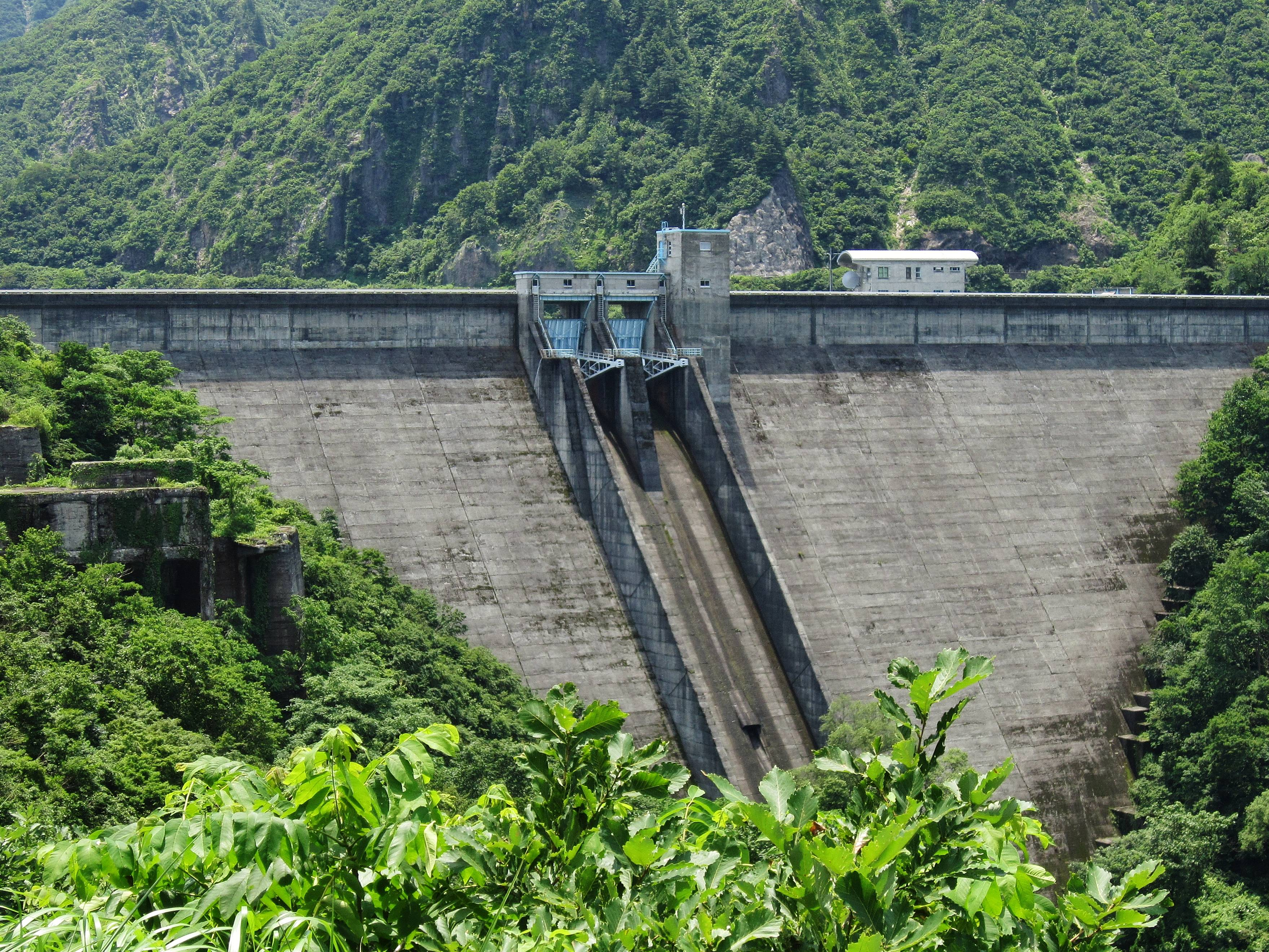 Kuromatagawa I Dam.